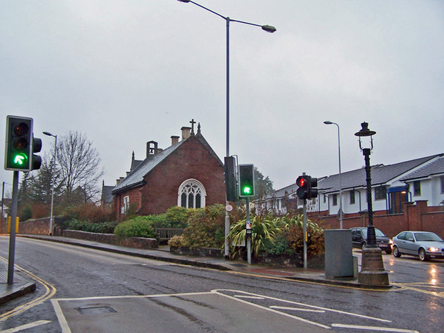 Livery Dole, Exeter. This is a triangle of land between Heavitree Road, Polsloe Road and Magdalen Road. From the Old English Leofhere who owned the land and dole, meaning a piece of land. An article in the Flying Post in 1848 stated that the first mention of Livery Dole was in a deed of 1 August 1278, and again in an Act of Parliament in 1437. Henry VI was met by clergymen from Exeter, clothed in their copes and vestments, at Livery Dole in 1452. Livery Dole was used as a place of execution for those who committed murder, witchcraft, heresy or treason. In August 1431, Drew Steyner was burnt at the stake at Livery Dole while a hundred years later Thomas Benet, the Protestant Martyr suffered the same fate there. Samuel Holmyard was found guilty of printing forged banknotes and hung there. (Extracts from 'Exeter Memories' - ). See also 1638917 The Victorian lamp post on the right is inscribed with 'CHARLES GEORGE GORDON 26TH JANUARY 1885'. General Gordon who was killed in the siege of Khartoum in 1885, was a close friend of the Heavitree vicar, Prebendary Barnes, father of Dame Irene Vanbrugh. Barnes was deeply upset at Gordon's death and paid for the memorial. General Gordon had family connections with Exeter and his father is buried in the St Thomas churchyard. See lamp post detail - 1638952